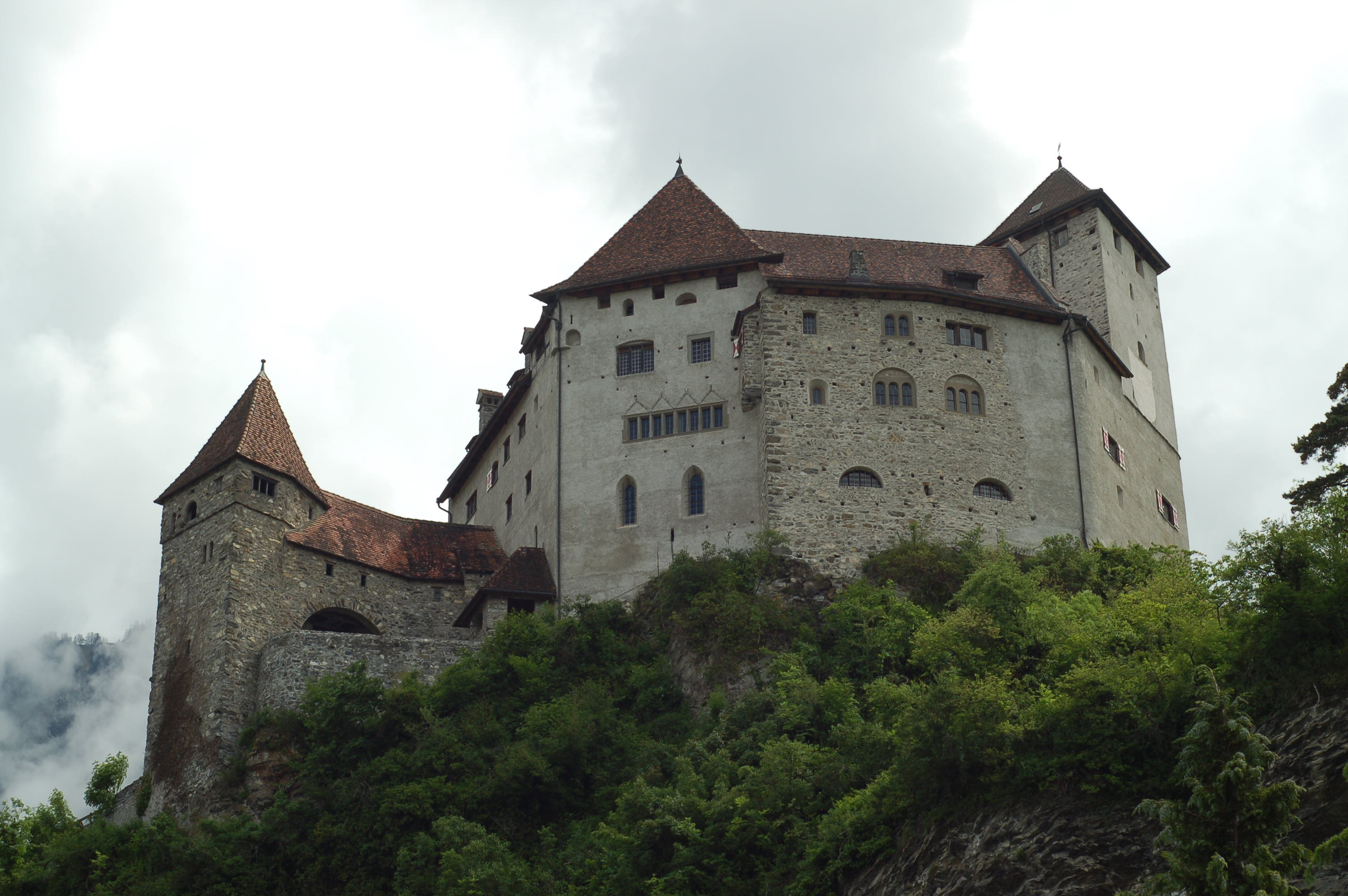 Gutenberg castle in Balzers, Liechtenstein